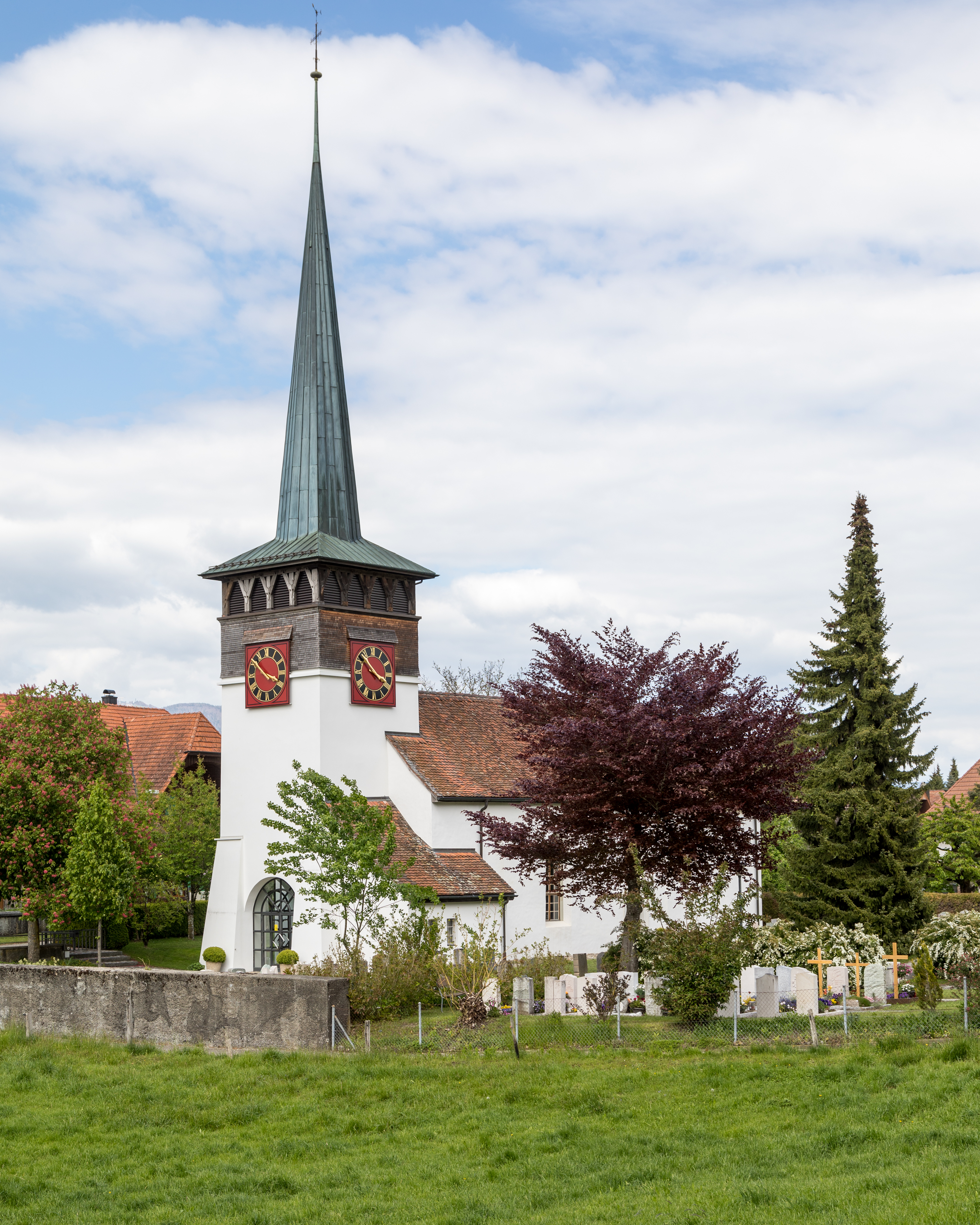 Leuzigen: Church, originally built in the 11th/12th century